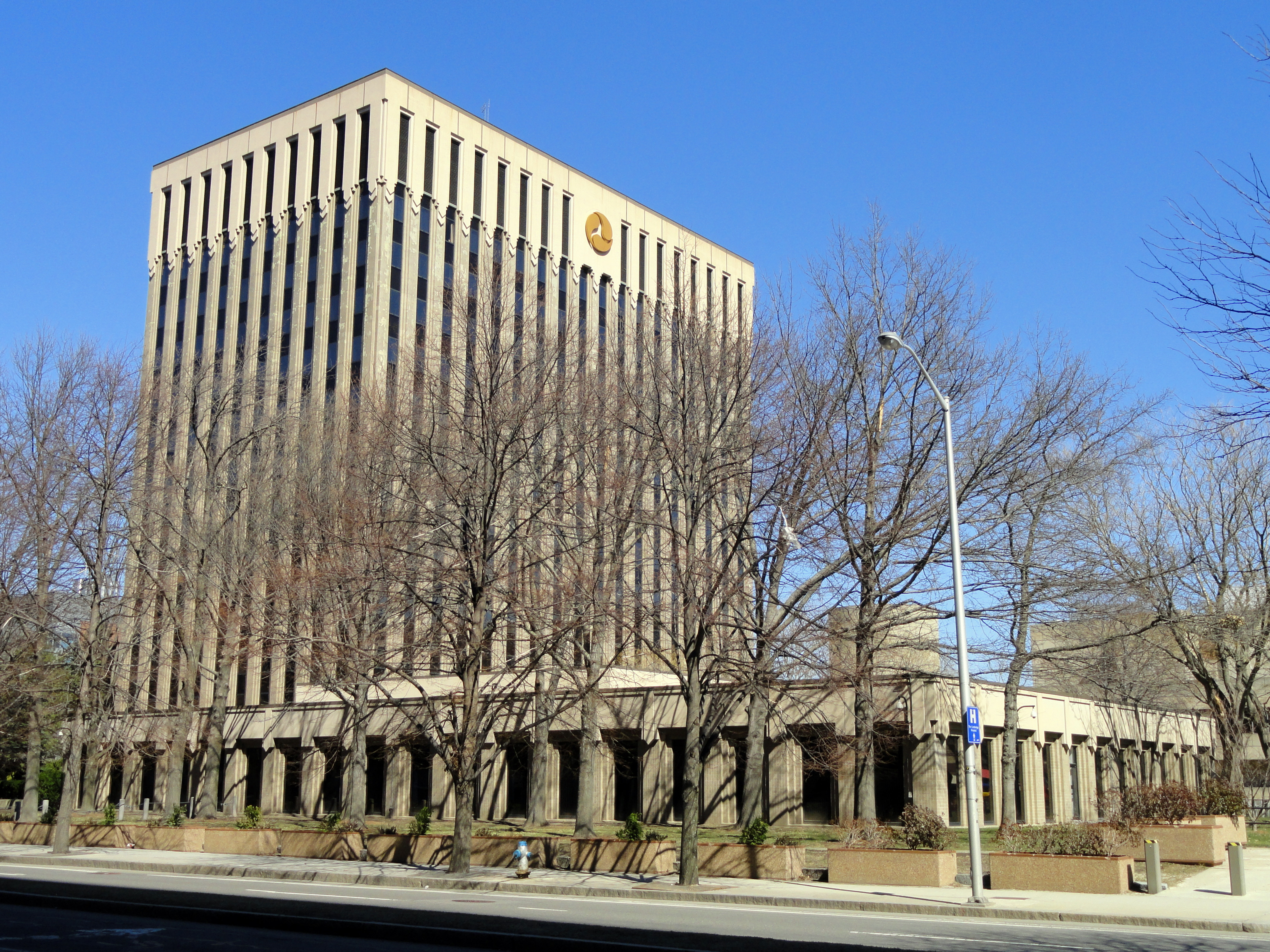 John A. Volpe National Transportation Systems Center, 55 Broadway, Cambridge, Massachusetts, USA.